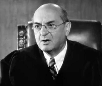 Granville Bates in My Favorite Wife - trailer (cropped screenshot)